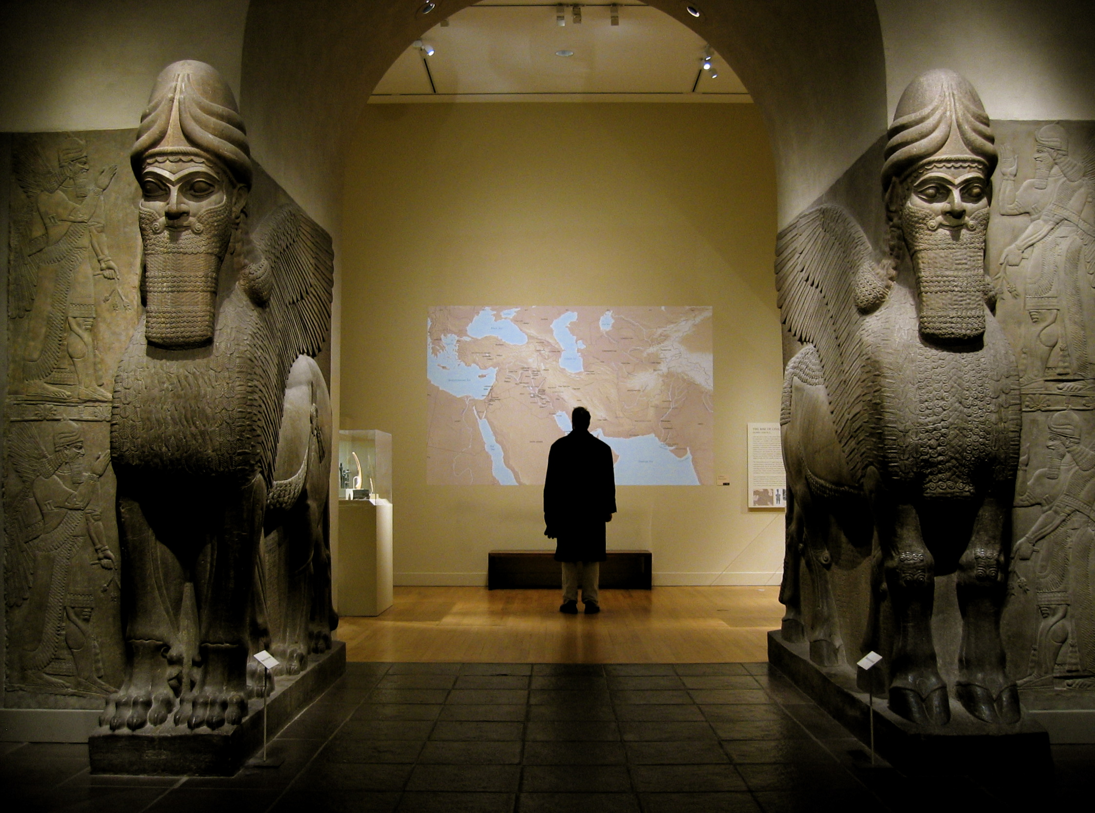 From the gate of Nimrud. A human-headed winged bull and winged lion (lamassu), Neo-Assyrian from the reign of Ashurnasirpal II; 883–859 B.C. Mesopotamia, Nimrud (ancient Kalhu) Alabaster (gypsum); H. 10 ft. 3 1/2 in. (313.7 cm) Gift of John D. Rockefeller Jr., 1932 (32.143.1–.2) Location: Metropolitan Museum of Art, New York. From the 9th to the 7th century B.C., the kings of Assyria ruled over a vast empire centered in northern Iraq. The great Assyrian king Ashurnasirpal II (r. 883–859 B.C.) undertook a vast building program at Nimrud, ancient Kalhu. Until it became the capital city under Ashurnasirpal, Nimrud had been no more than a provincial town. The new capital occupied an area of about nine hundred acres, around which Ashurnasirpal constructed a mudbrick wall that was 120 feet thick, 42 feet high, and five miles long. In the southwest corner of this enclosure was the acropolis, where the temples, palaces, and administrative offices of the empire were located. In 879 B.C. Ashurnasirpal held a festival for 69,574 people to celebrate the construction of the new capital, and the event was documented by an inscription that read: "...the happy people of all the lands together with the people of Kalhu—for ten days I feasted, wined, bathed, and honored them and sent them back to their home in peace and joy."